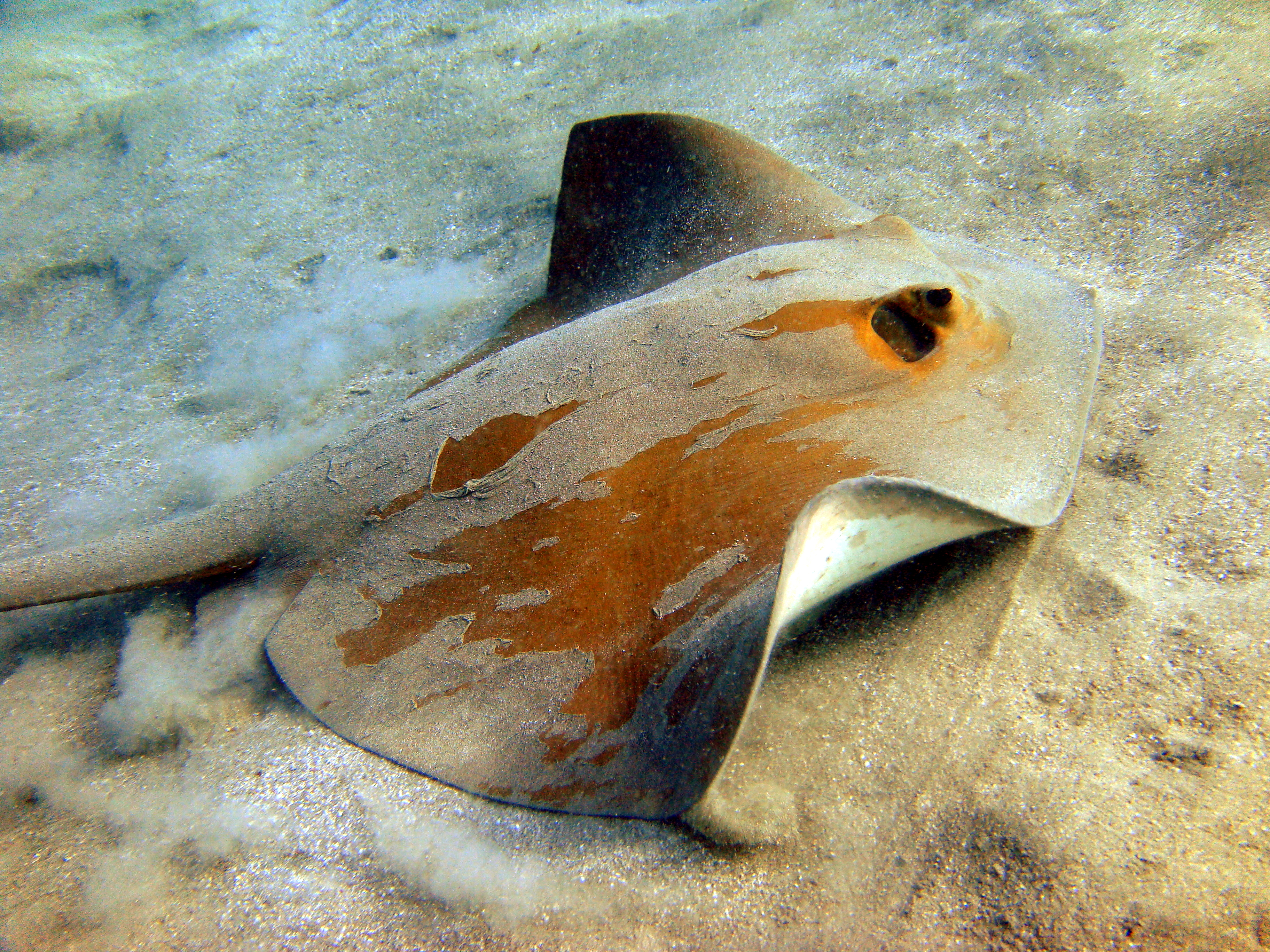 Pastinachus Sephen near Marsa Alam.